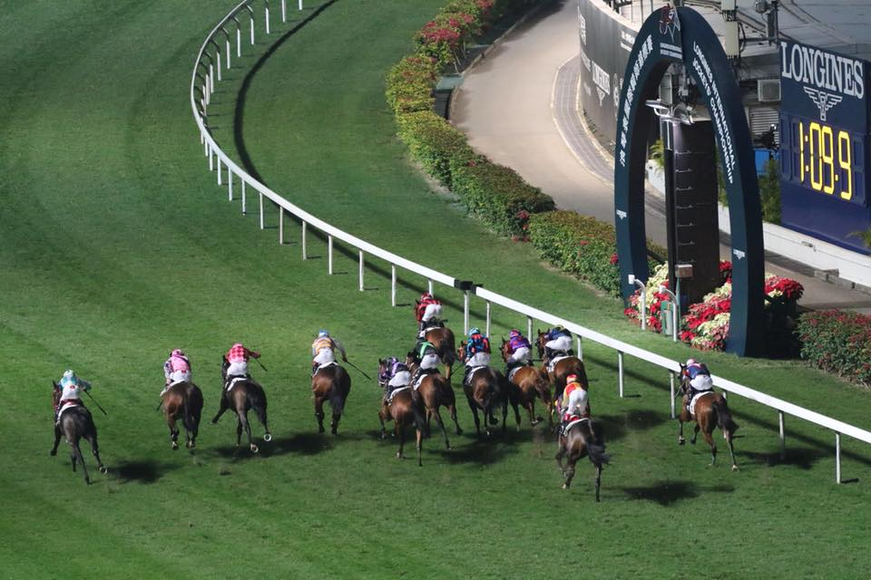 International Jockey Championship 2017